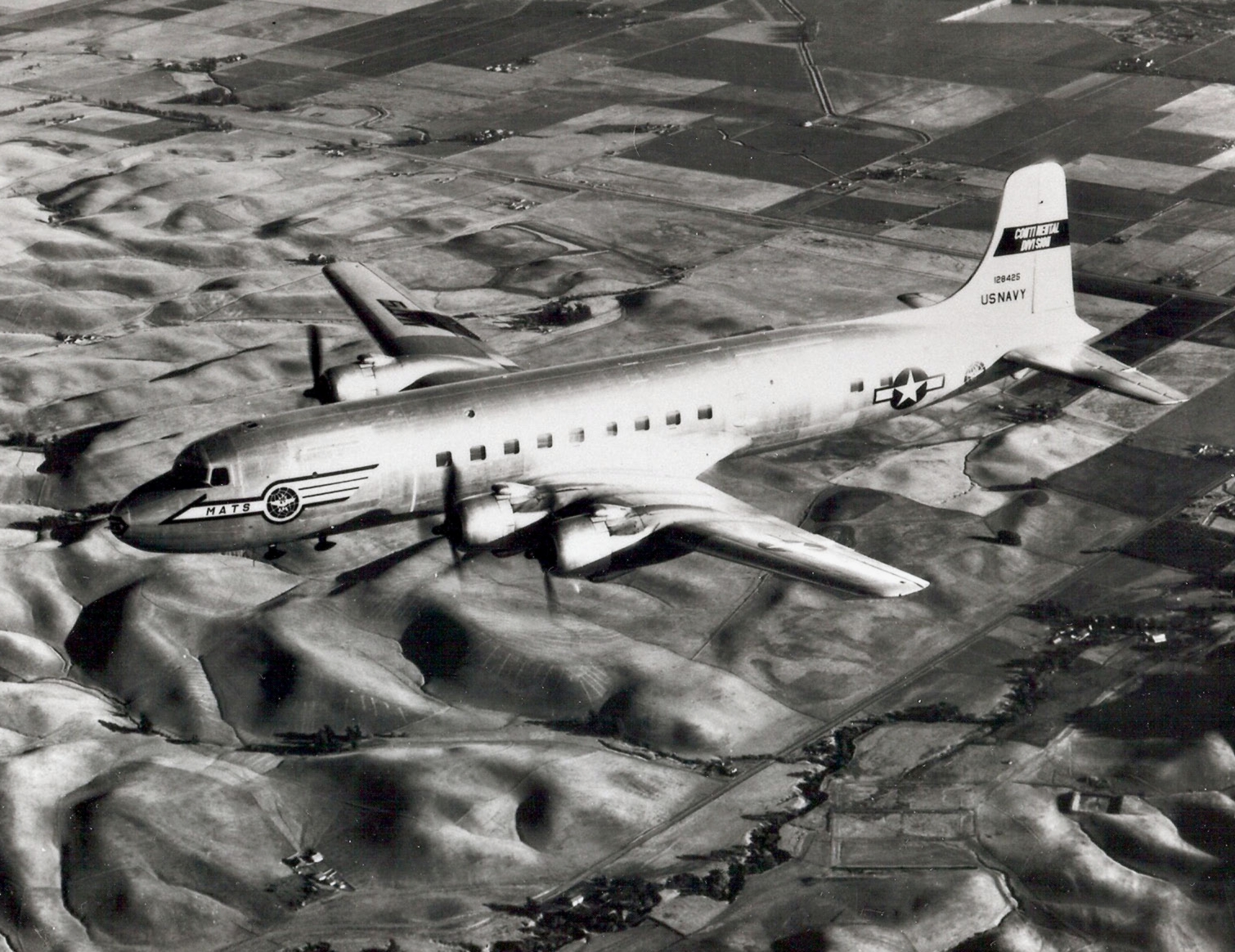 A U.S. Navy Douglas R6D-1 Liftmaster (BuNo 128425), in flight. The tail marking is "Continental Division" of the Military Air Transoprt Service. This aircraft was finally retired to the MASDC as 8C0011 on 10 October 1976.